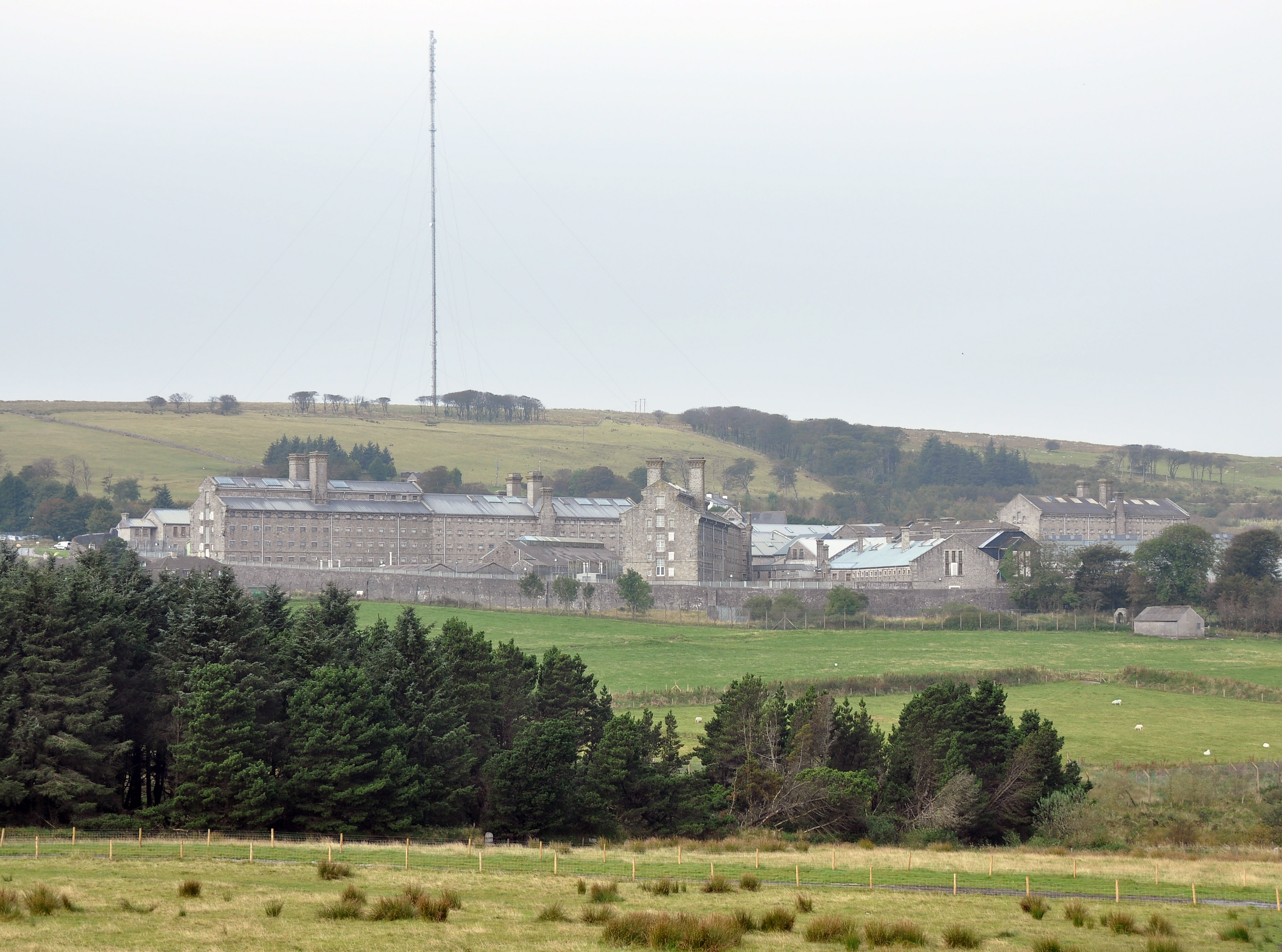 Dartmoor Prison in Princetown with North Hessary Mast and tor visible behind it.